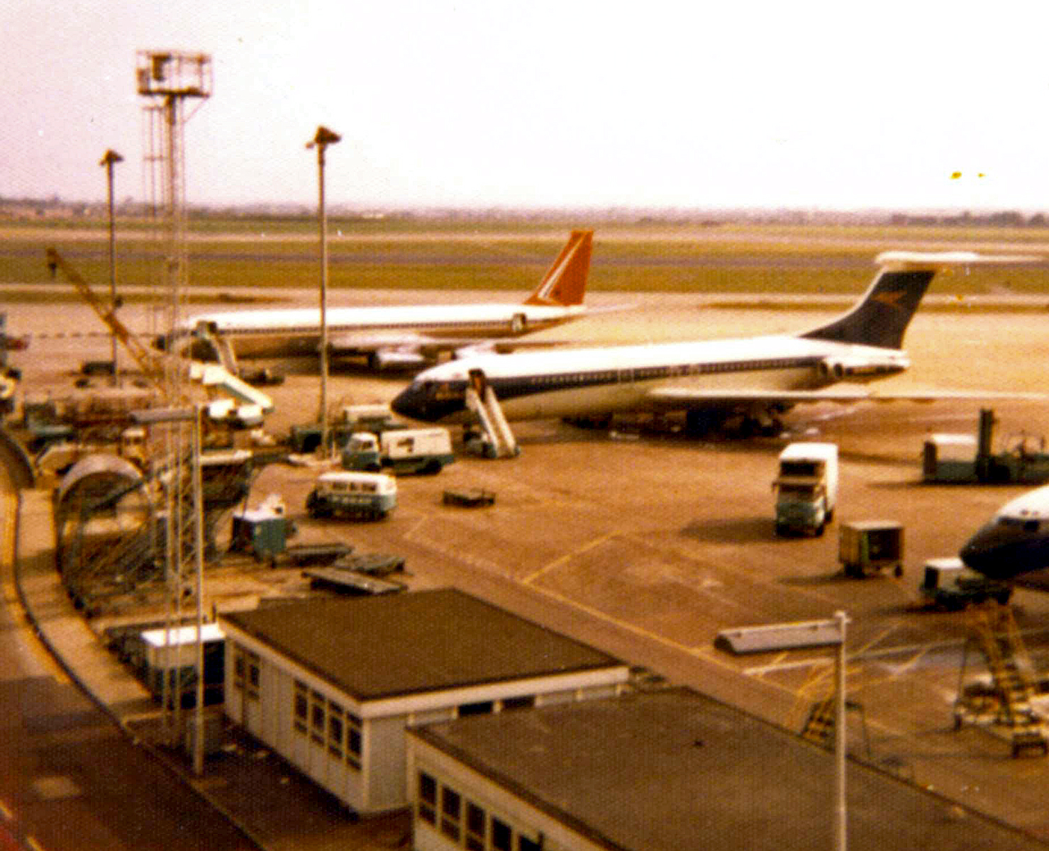 A BOAC Vickers VC10 (it being BOAC suggests the photograph is older than 1977) can be seen on the foreground and a South African Airways Boeing 707 can be seen behind at London Heathrow Airport in 1977 (although I suspect it is earlier).